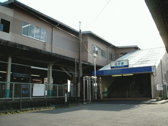 Keisei Usui Station north side